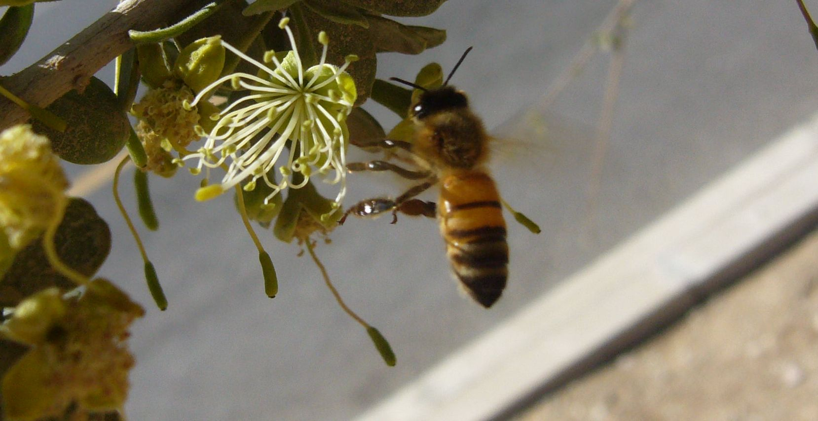 Apis mellifera syriaca, Israel, Death Sea, En Gedi